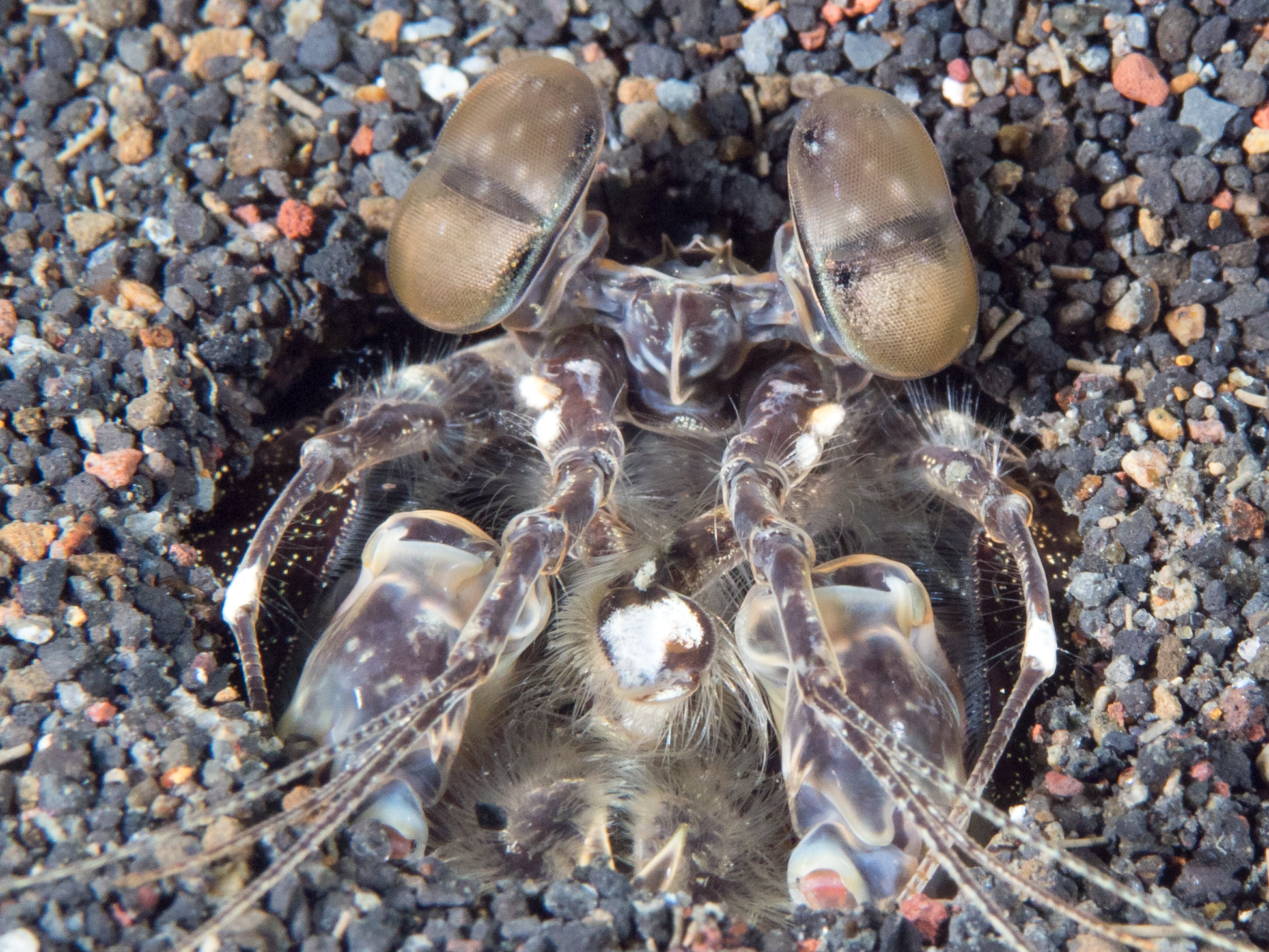 Lembeh, Indonesia - Lysiosquillidae sp. spearing mantis shrimp